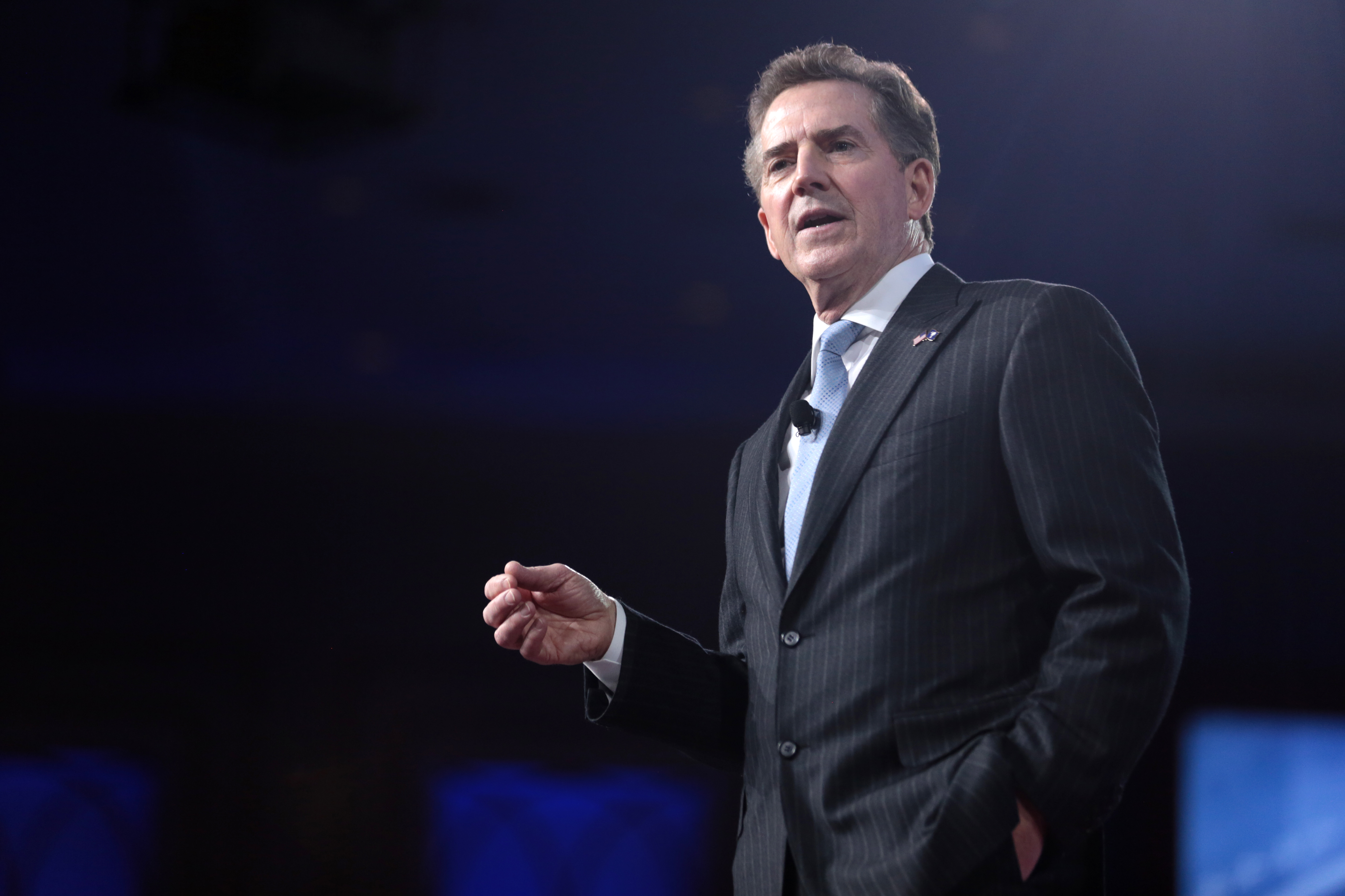 President Jim DeMint of the Heritage Foundation speaking at the 2017 Conservative Political Action Conference (CPAC) in National Harbor, Maryland.